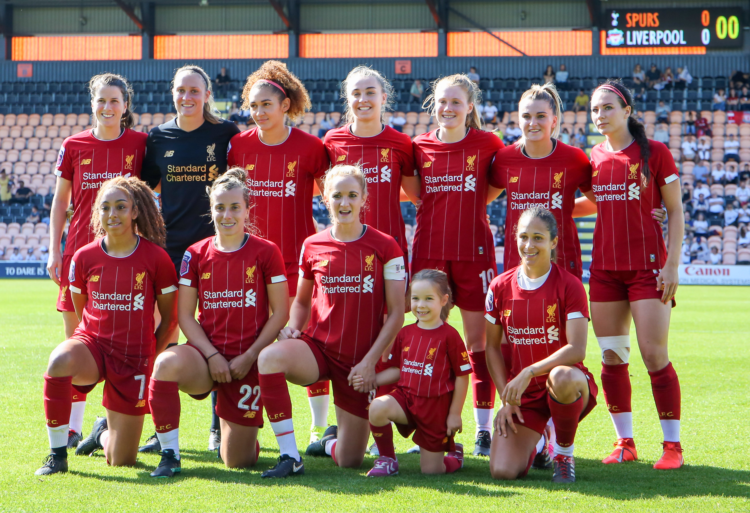 2019–20 FA WSL: Tottenham Hotspur FC Women v Liverpool FC Women, 15 September 2019 – Liverpool starting line-up.